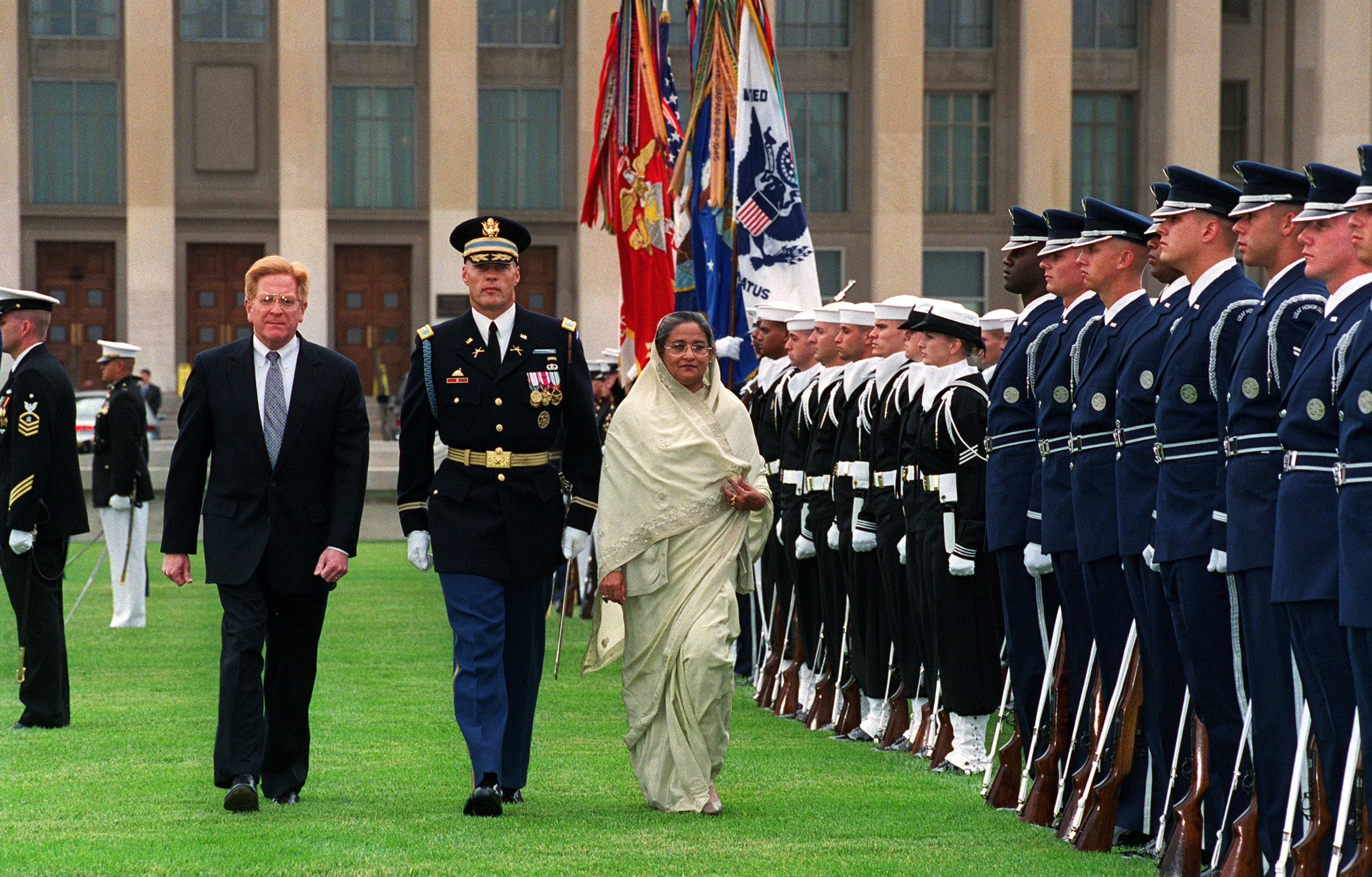 Prime Minister Sheikh Hasina (right), of the Peoples Republic of Bangladesh, is escorted by Commander of Troops Col. Thomas M. Jordan (center), U.S. Army, and Deputy Secretary of Defense Rudy de Leon (left) as she inspects the ceremonial honor guard during a full honor arrival ceremony at the Pentagon on Oct. 17, 2000. Hasina, who also serves as her nation's defense minister, and de Leon will meet for talks on a broad range of security issues of interest to both nations.